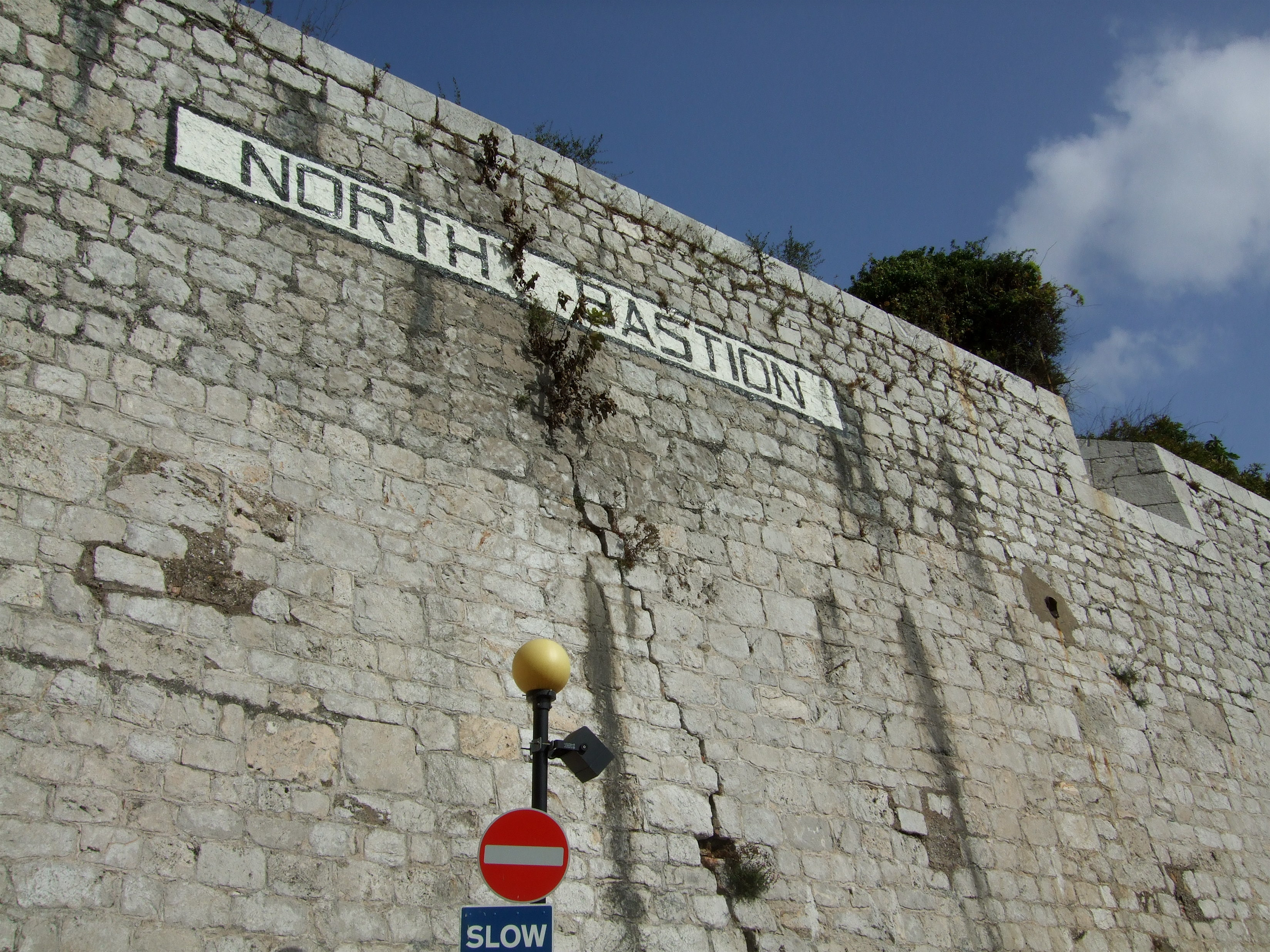 A wall of the North Bastion in Gibraltar